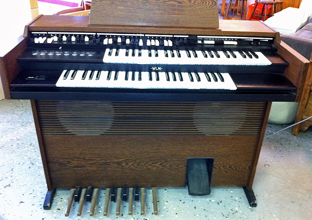 WLM electric organ, made in Finland between 1972 and 1984, with electronic sinewave generator(s), Hammond-like drawbars and Leslie rotating speaker(s).